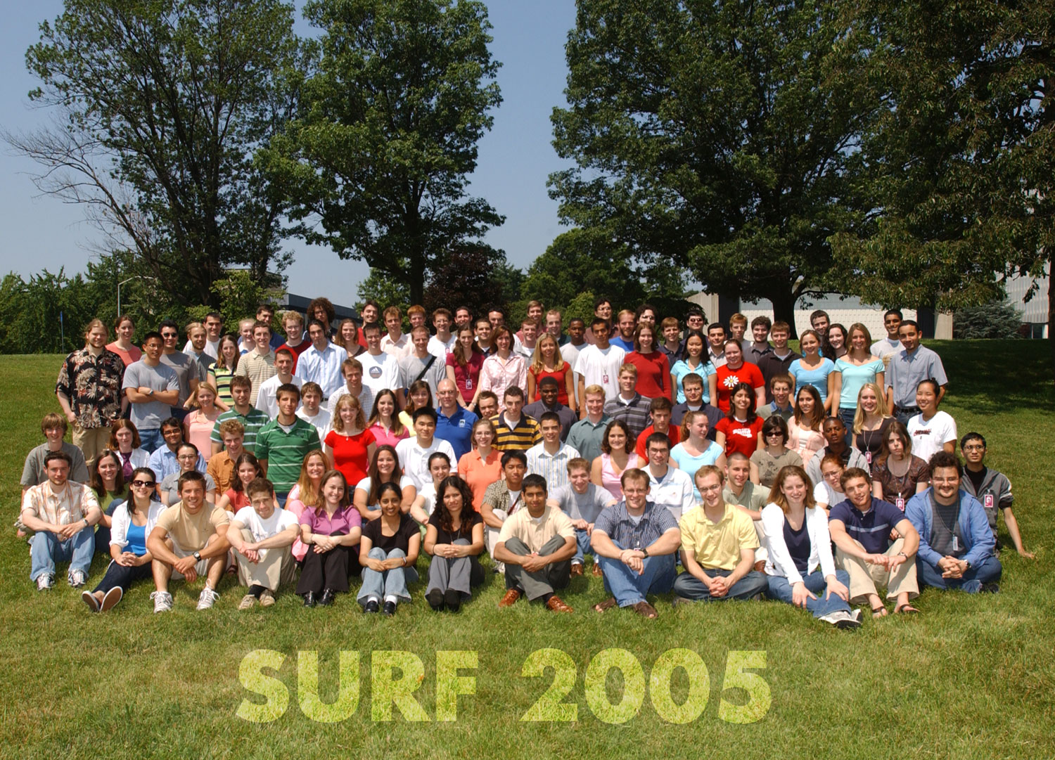 College students who had participated in Summer Undergraduate Research Fellowship (SURF) program at National Institute of Standards and Technology(NIST) in Gaithersburg, MD. This fellowship program is supported by NIST, NSF, and the participating colleges and universities. It is open to all United States citizens or permanent residents who are undergraduate students with a scientific major with a G.P.A. 3.0 or higher, and with an intention of pursuing a Ph.D. degree in the future. The Students can participate in one of the seven laboratories at NIST BFRL (Building and Fire Research Lab) MSEL (Materials Science & Engineering Lab) ITL (Information Technology Lab) MEL (Manufacturing Engineering Lab) CSTL (Chemical Science and Technology Lab) EEEL (Electronics and Electrical Engineering Lab) PL (Physics Lab)